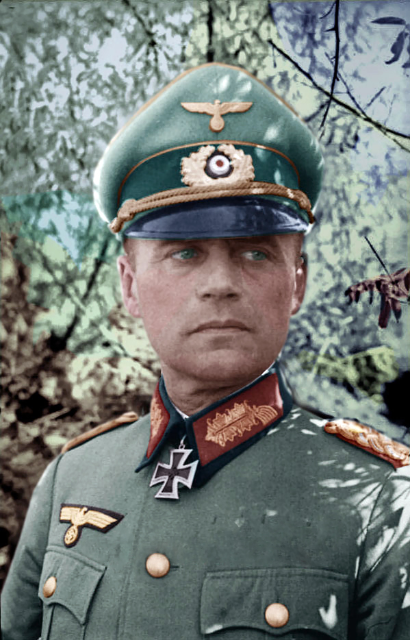 Ferdinand Heim. Colored photograh.